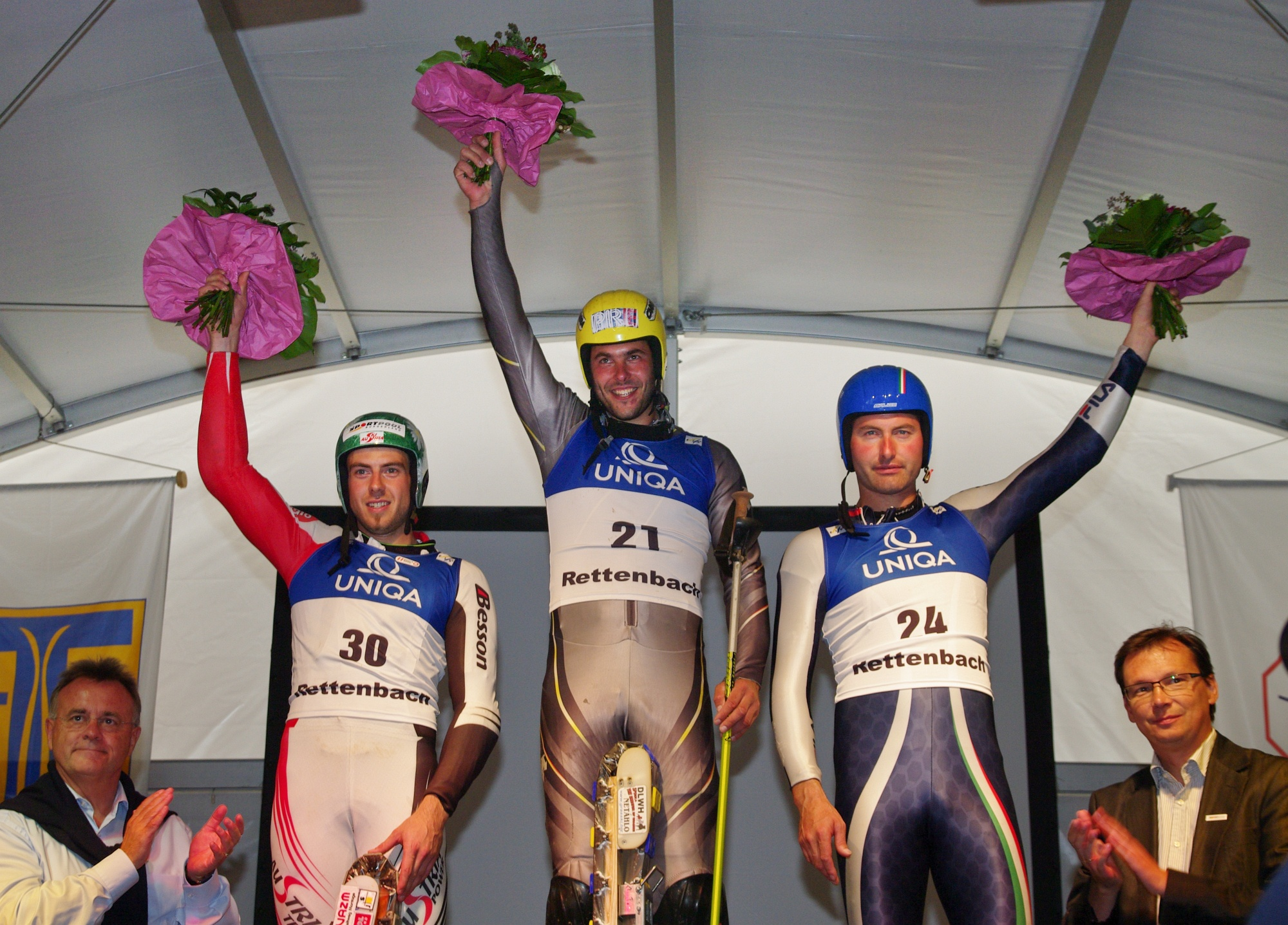 Grass Skiing World Championships 2009 in Rettenbach, Austria. Men's Slalom, Flower Ceremony: 1st Place: Jan Němec (CZE), 2nd Place: Michael Stocker (AUT), 3rd Place: Riccardo Lorenzone (ITA); left: Hans Niessl, Landeshauptmann of the Burgenland; right: Norbert Darabos, Minister for Defense and Sports